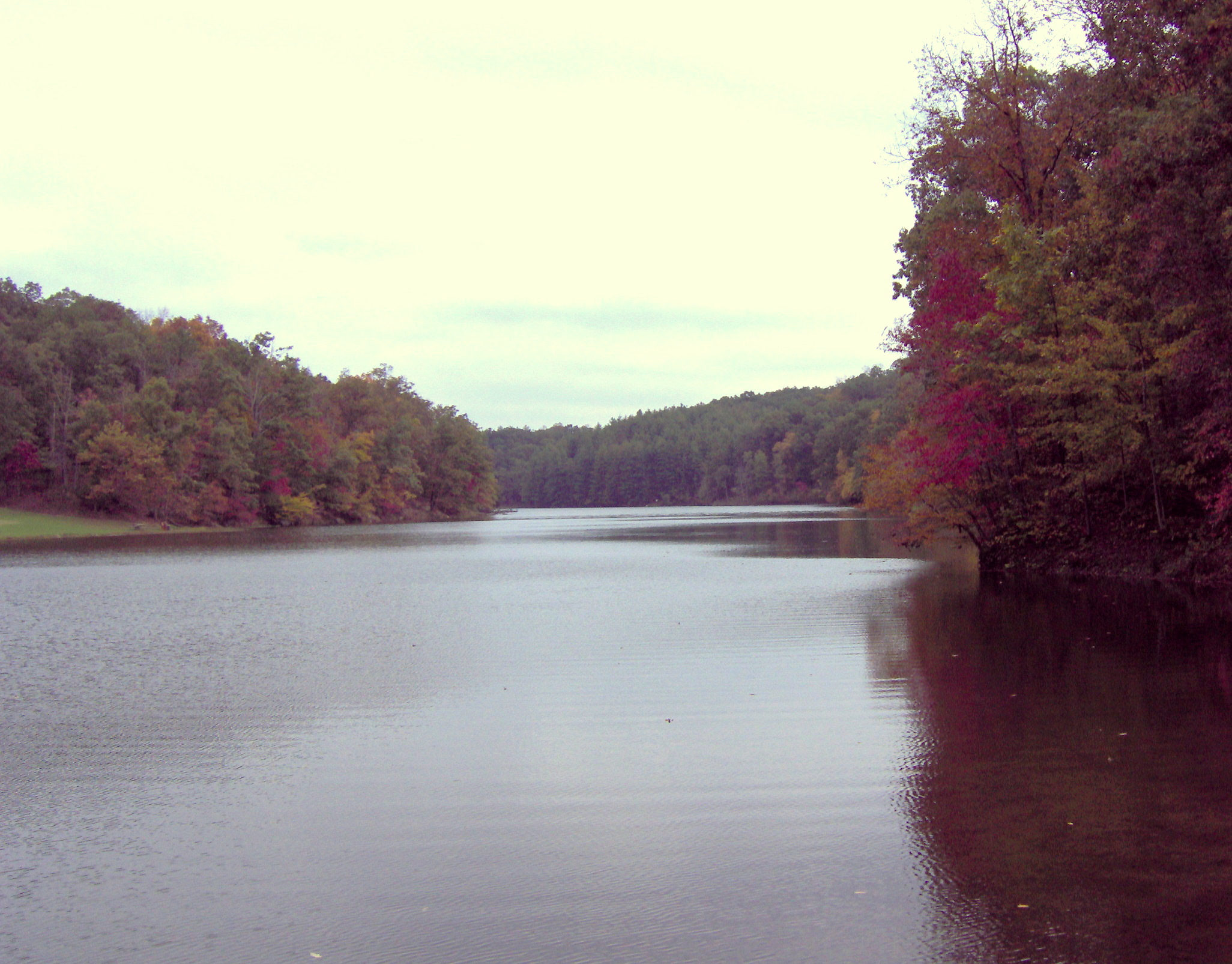 Early autumn view of Greenbo Lake, an 181-acre lake in Greenup County, Kentucky.